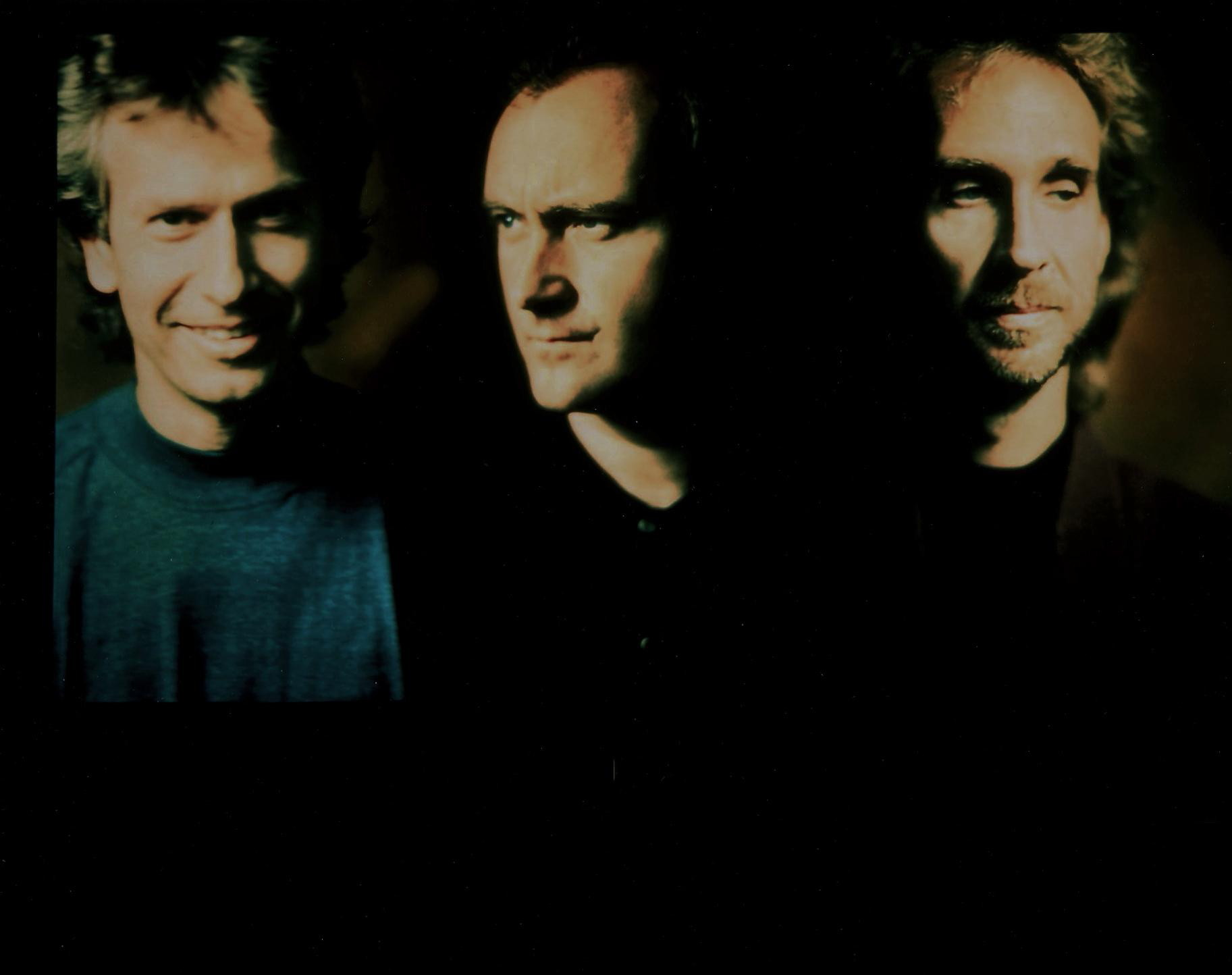 The world famous band - Genesis. Tony Banks, Phil Collins and Mike Rutherford. (Photo 1991)